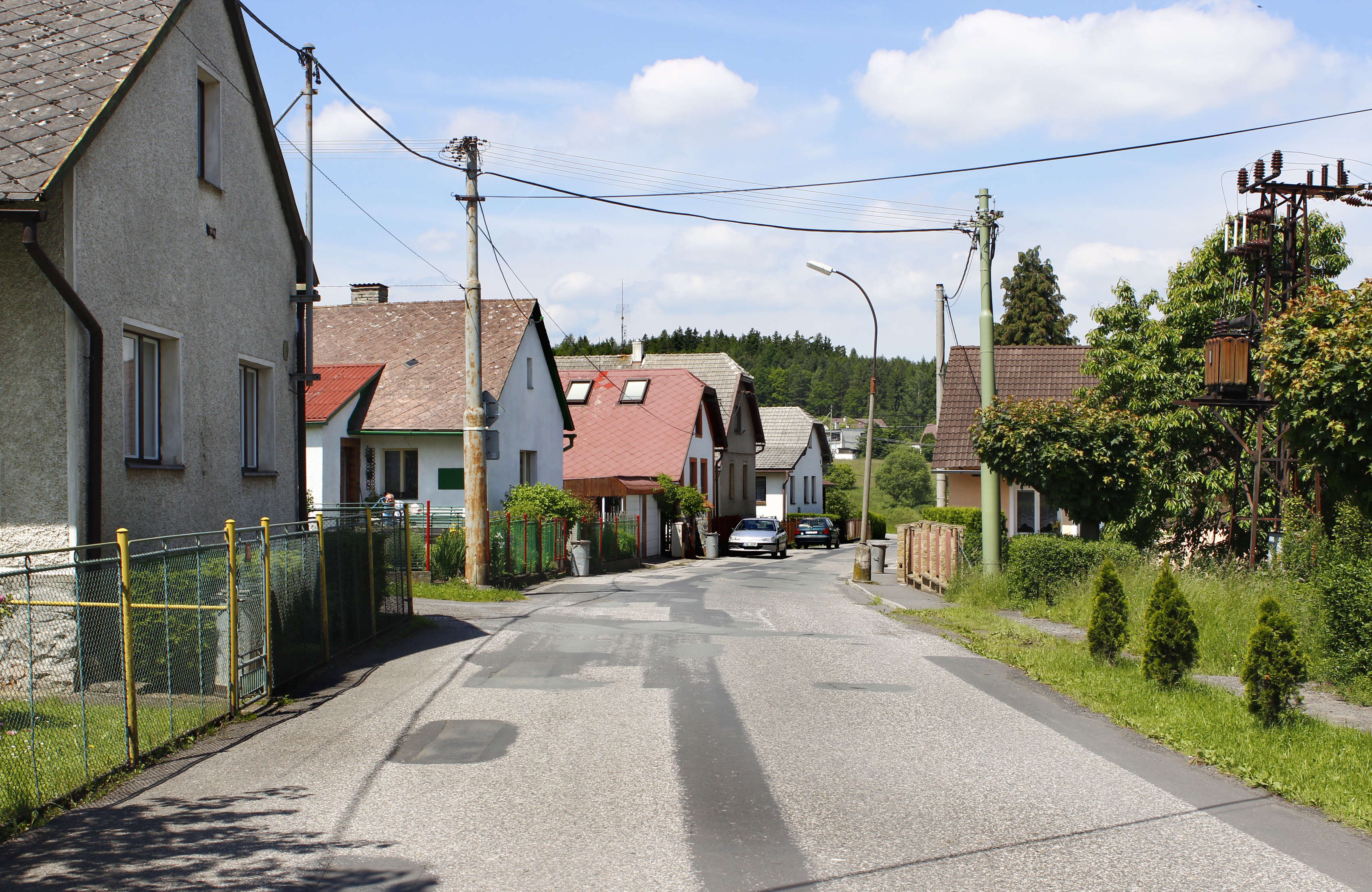 South part of Chaloupky village, Czech Republic